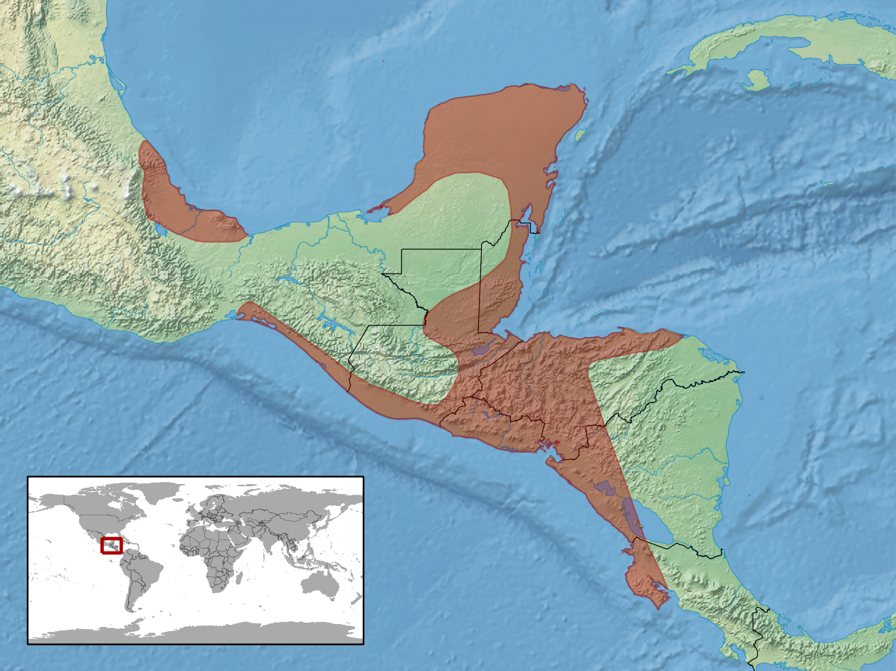 geographic distribution of Conophis lineatus (Native: Belize; Costa Rica; El Salvador; Guatemala; Honduras; Mexico; Nicaragua)